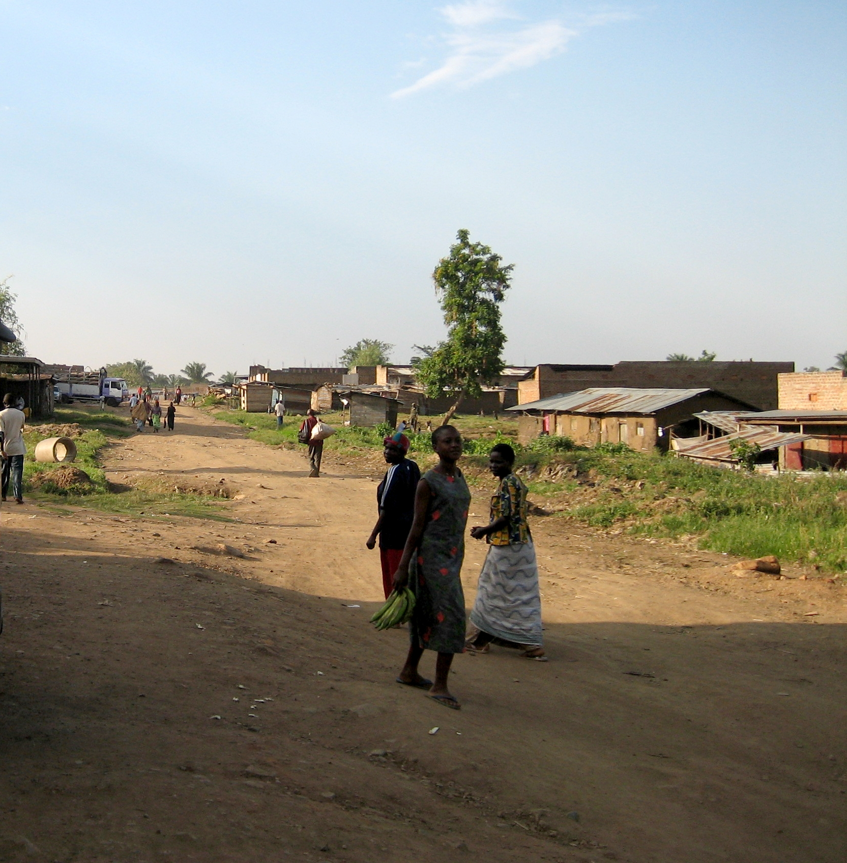 A side road inside the district capital Bundibugyo — Bundibugyo District, western Uganda.